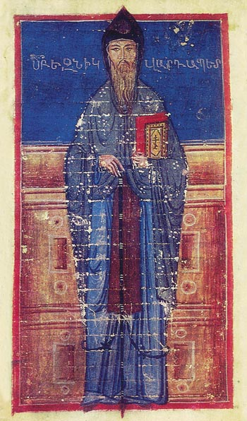 This is a faithful photographic reproduction of a two-dimensional, public domain work of art. The work of art itself is in the public domain for the following reason: This work is in the public domain in its country of origin and other countries and areas where the copyright term is the author's life plus 100 years or less. You must also include a United States public domain tag to indicate why this work is in the public domain in the United States. This file has been identified as being free of known restrictions under copyright law, including all related and neighboring rights. The official position taken by the Wikimedia Foundation is that "faithful reproductions of two-dimensional public domain works of art are public domain".This photographic reproduction is therefore also considered to be in the public domain in the United States. In other jurisdictions, re-use of this content may be restricted; see Reuse of PD-Art photographs for details.